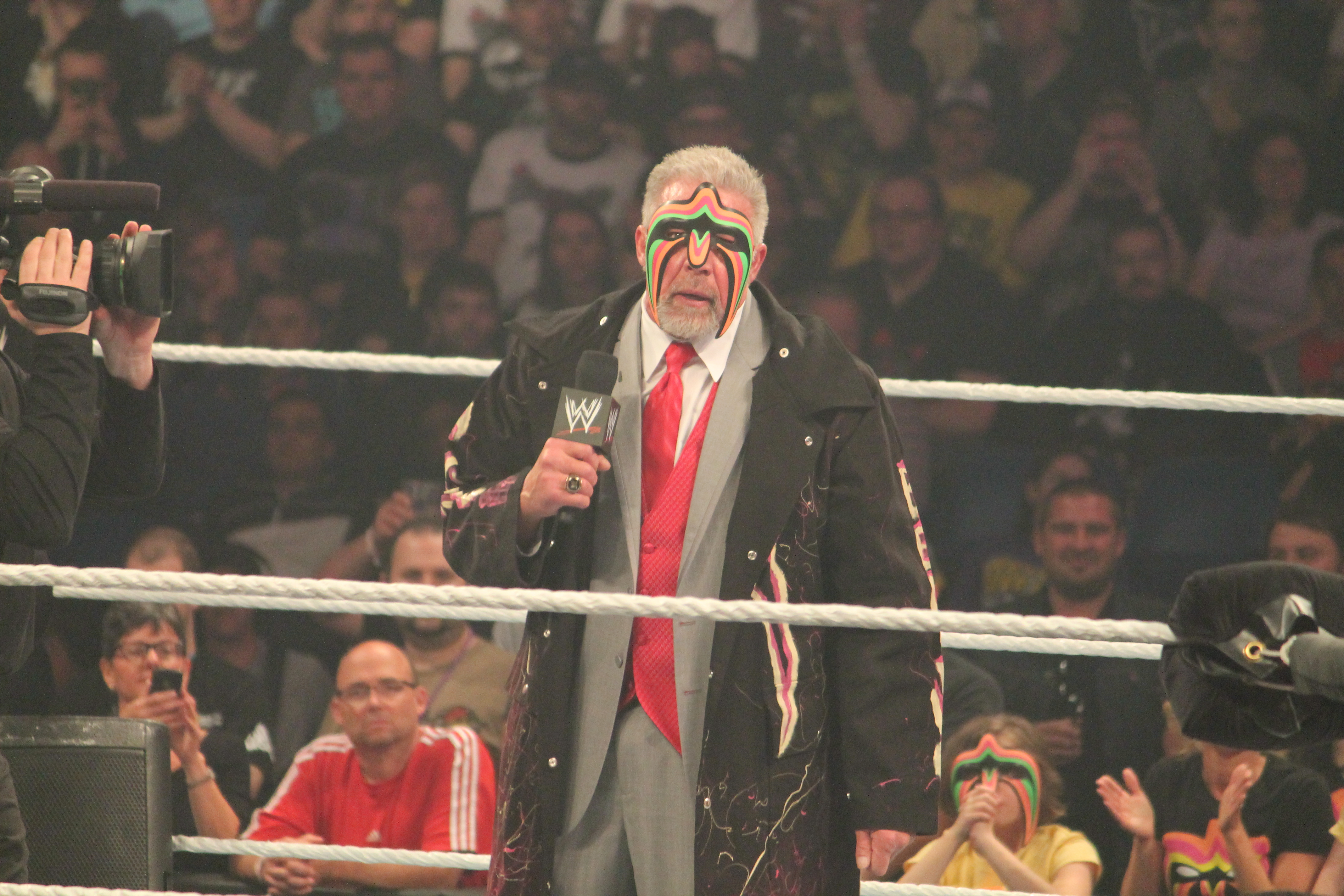 The Ultimate Warrior in his last appearance on RAW in a mask depicting his trademark face paint.